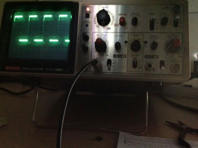 ENES 1